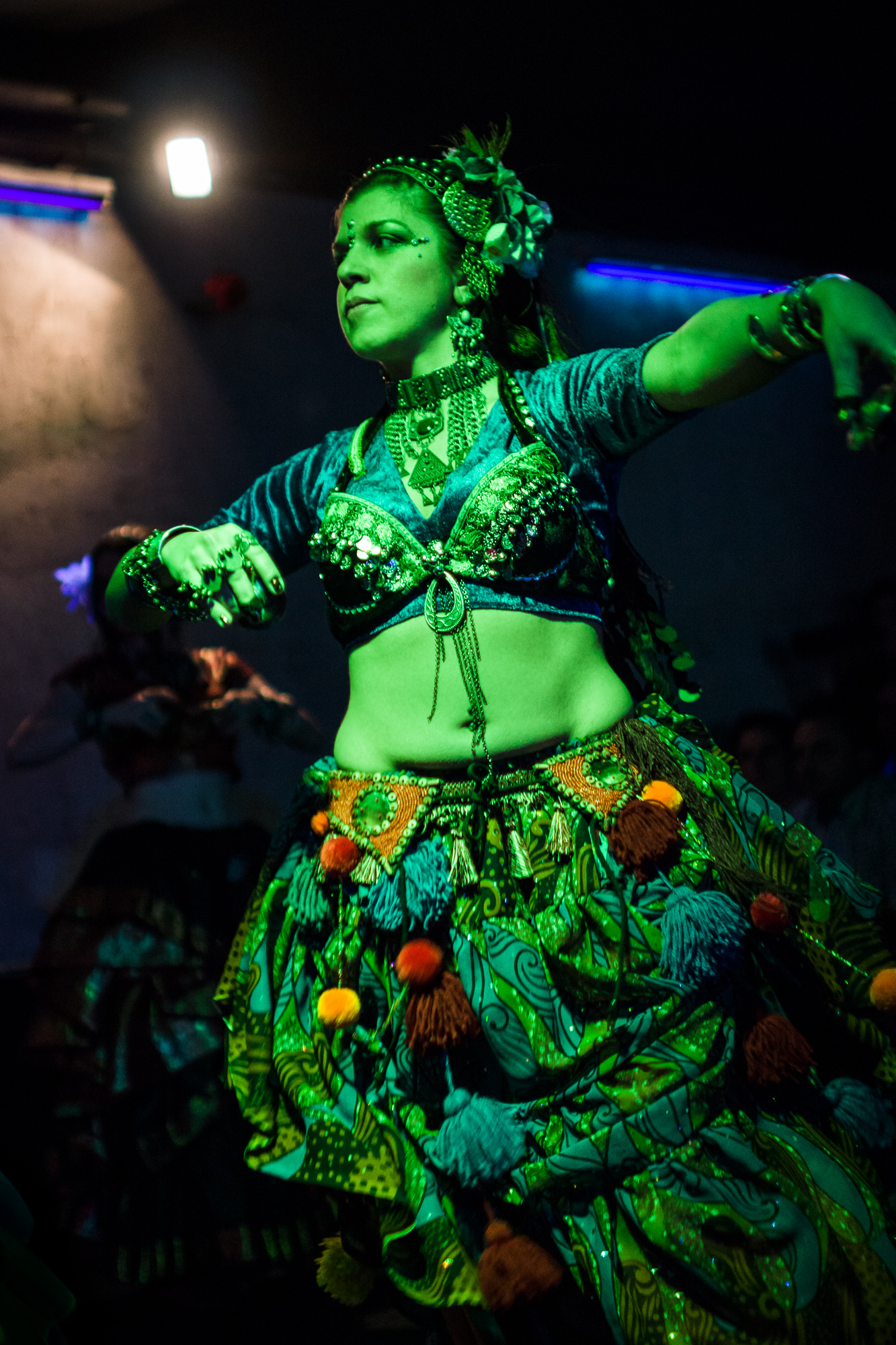 Magdalena Wilczyńska, American Tribal Style Belly Dancer from Poland. This photo was taken with Sony SLT-A77 camera, thanks to cooperation with Sony Poland. You can see all photographs in category Taken with Sony SLT-A77. English | polski | +/−